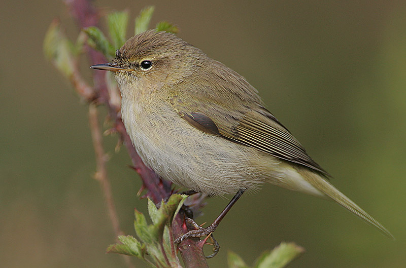 Image taken in Valleyfield Woods, Fife, Scotland.